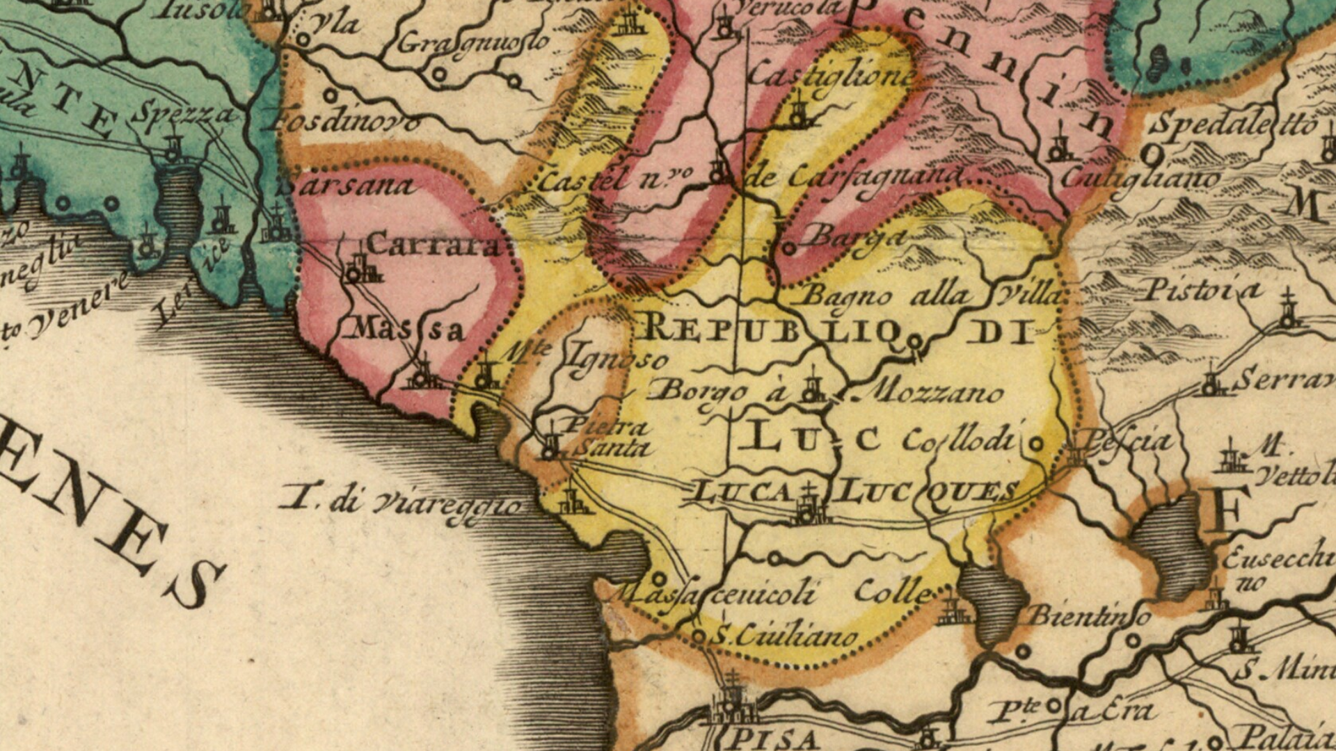 Detail of a French map of Italy from c. 1700–1750 showing the territory of the Republic of Lucca. The enclave of Pietrasanta (in brown) surrounded by Lucca belonged to the Grand Duchy of Tuscany. The Republic of Lucca was bordered to the northwest by the Duchy of Massa-Carrara, to the north by the Duchy of Modena, and to the east and south by the Grand Duchy of Tuscany. The map was designed by Nicolas Sanson (1600-1667) and published after his death by Covens & Mortier.